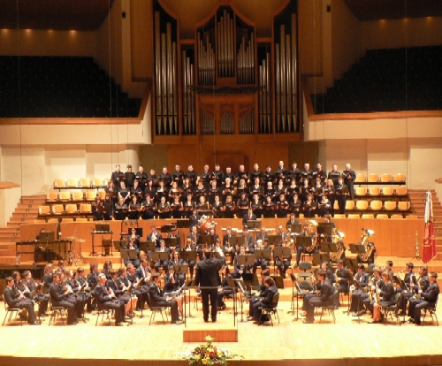 Banda de Música Campanar al Palau de la Música de Valencia